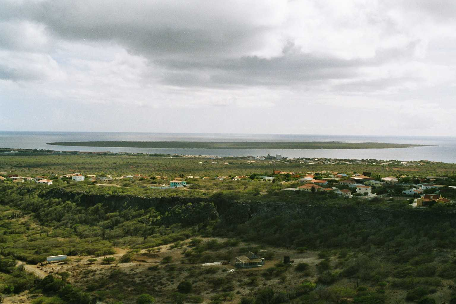 Kralendijk (city) and Klein Bonaire, Netherlands Antilles. Photo by V.C.Vulto, 2002.